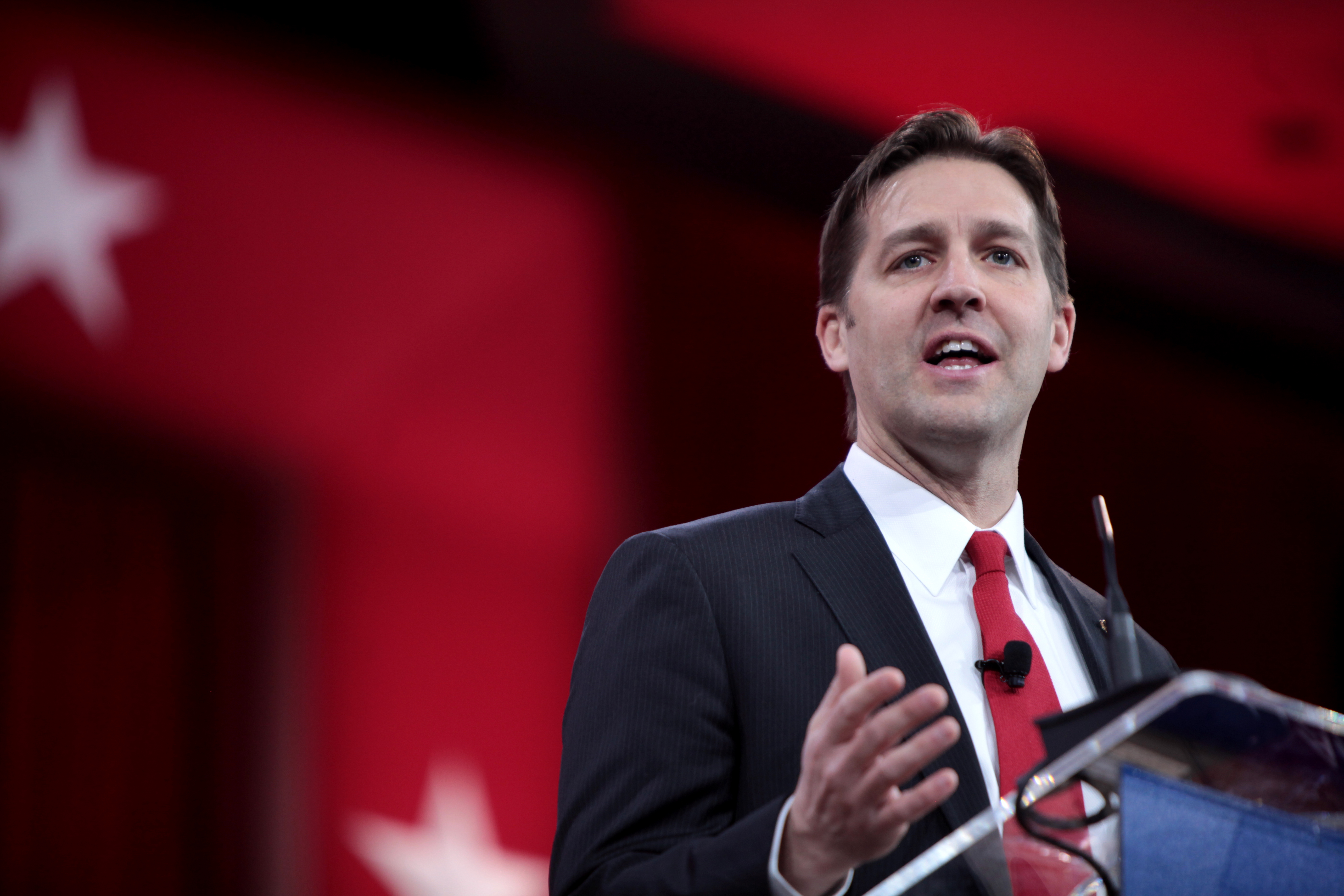 Ben Sasse speaking at CPAC 2015 in Washington, DC.